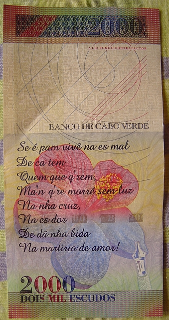 Banknote of 2000 escudos, Cape Verde